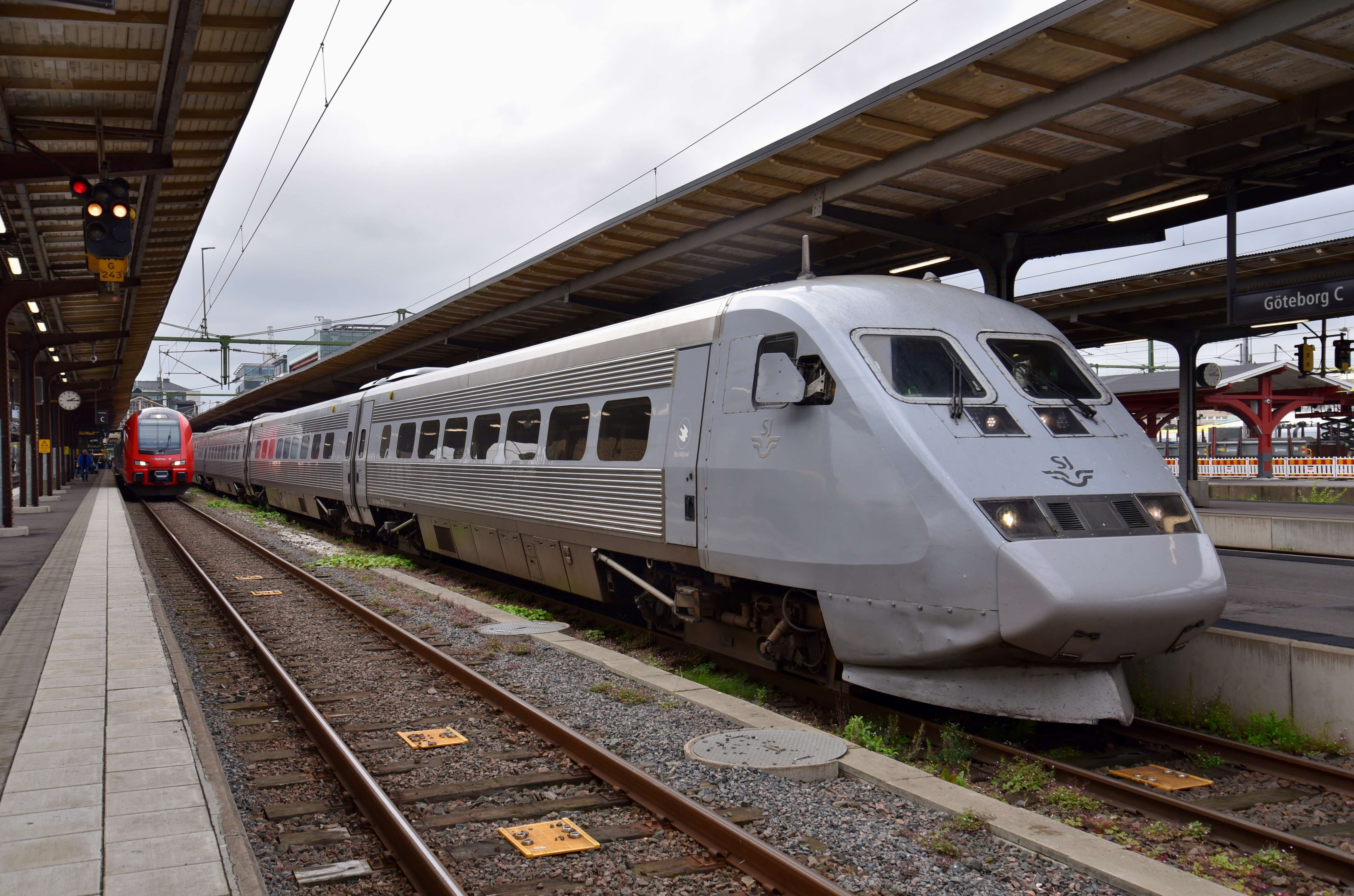 View of the driving trailer end of SJ X2 class unit no 2036, laying over at Gothenburg Central Station after arriving from Stockholm